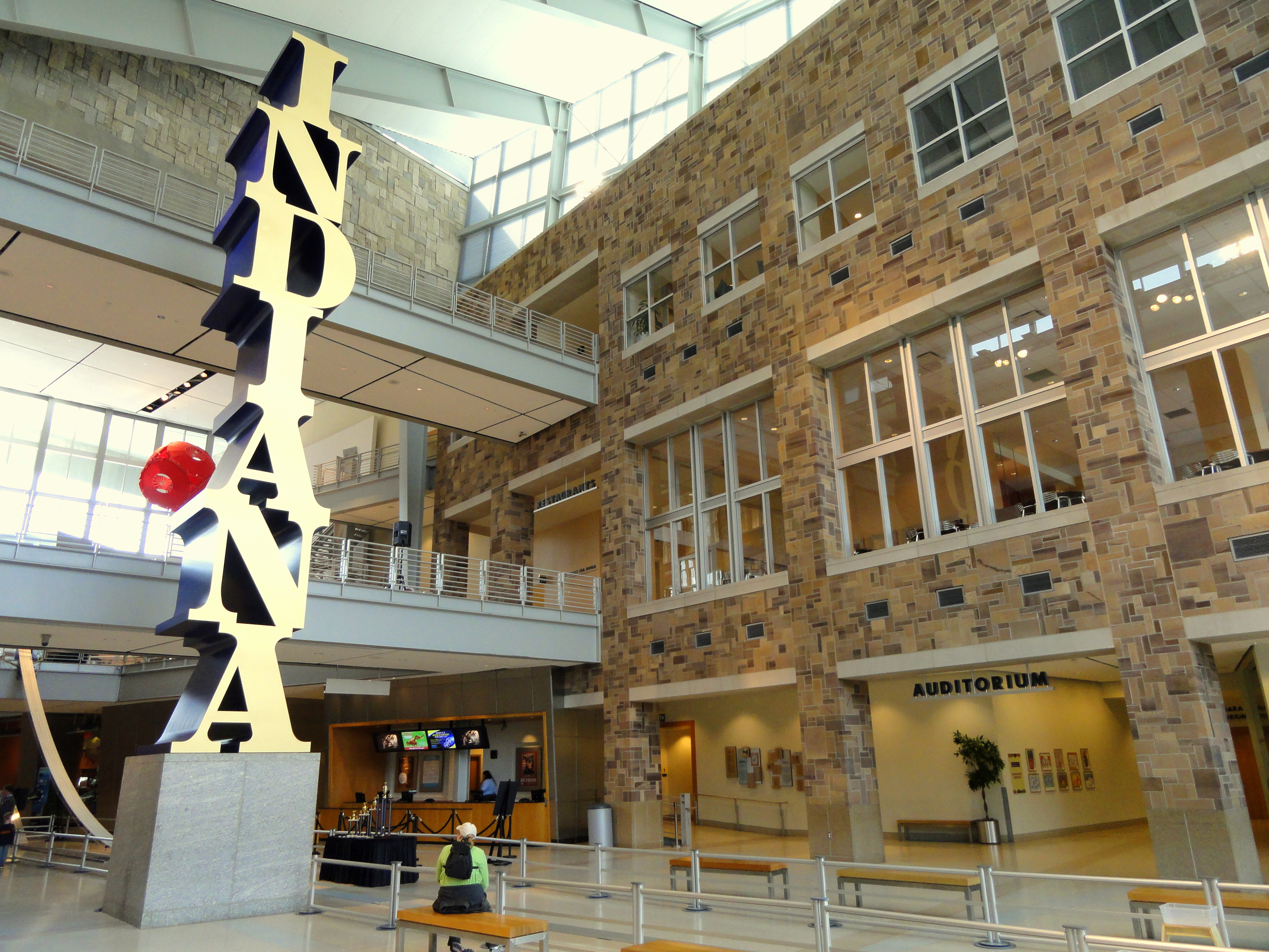 Indiana State Museum, 650 West Washington Street, Indianapolis, Indiana, USA.